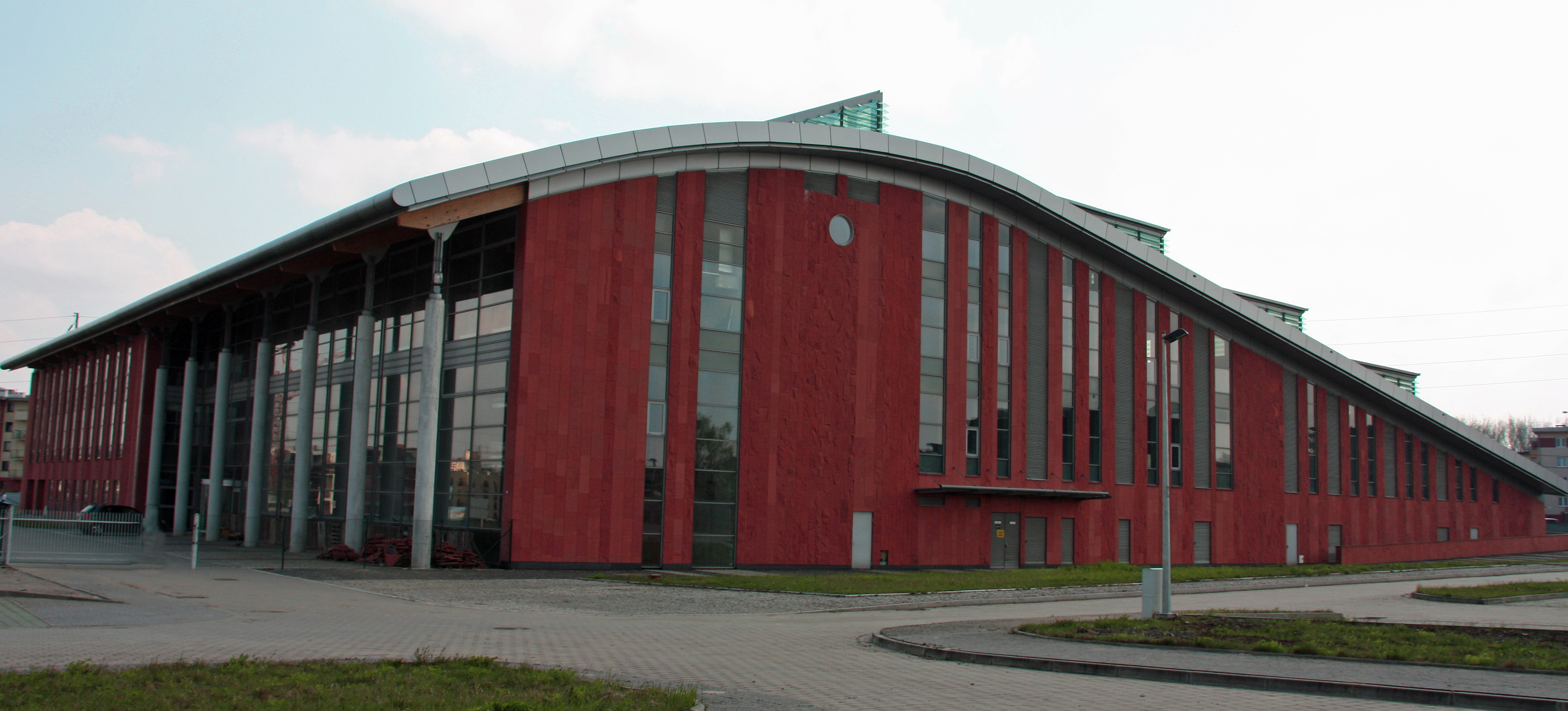 Main Library